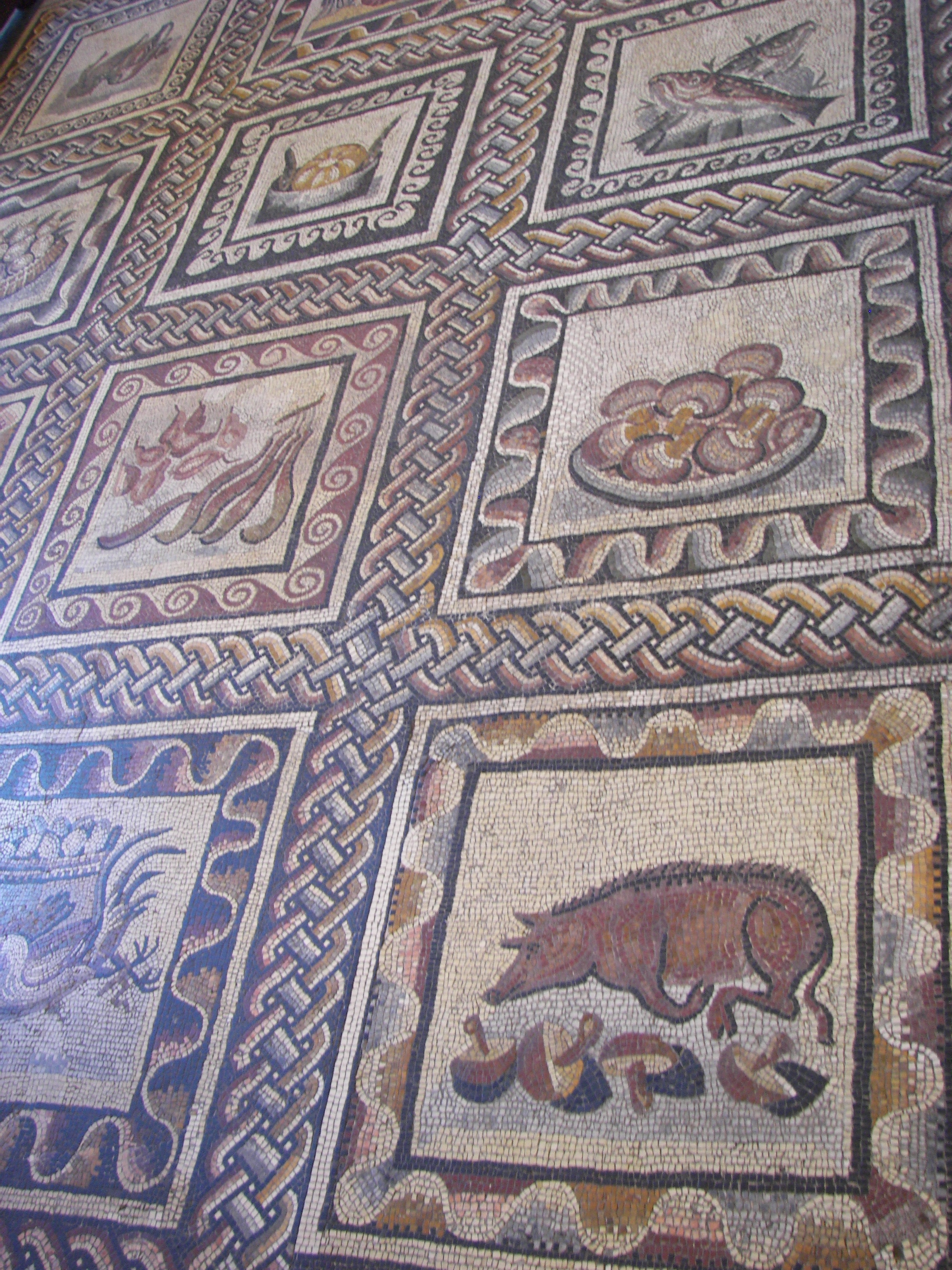 Mosaic in the Vatican Museums.